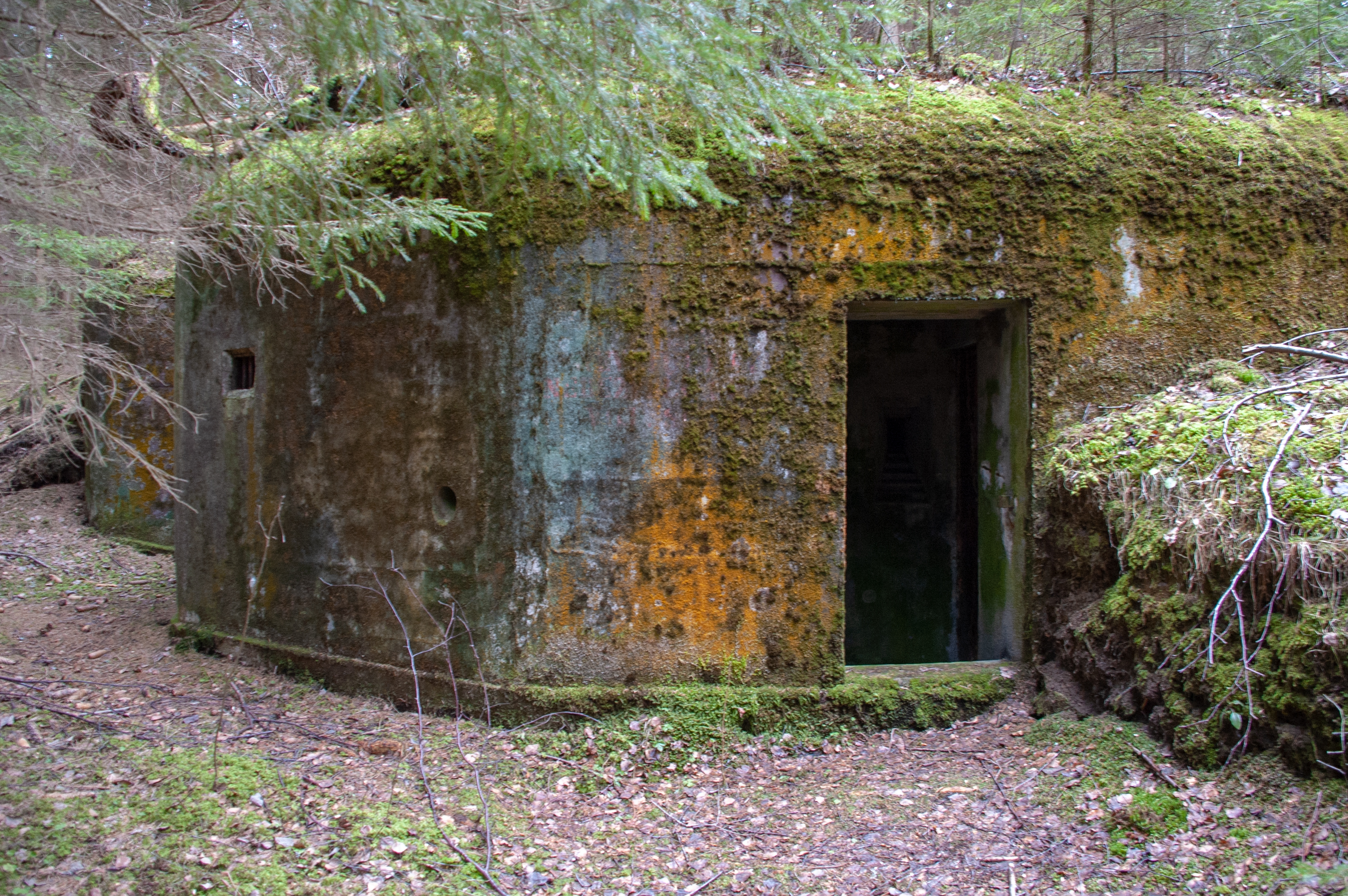 This image was created as a part of Editaton Prachatice (Czech).